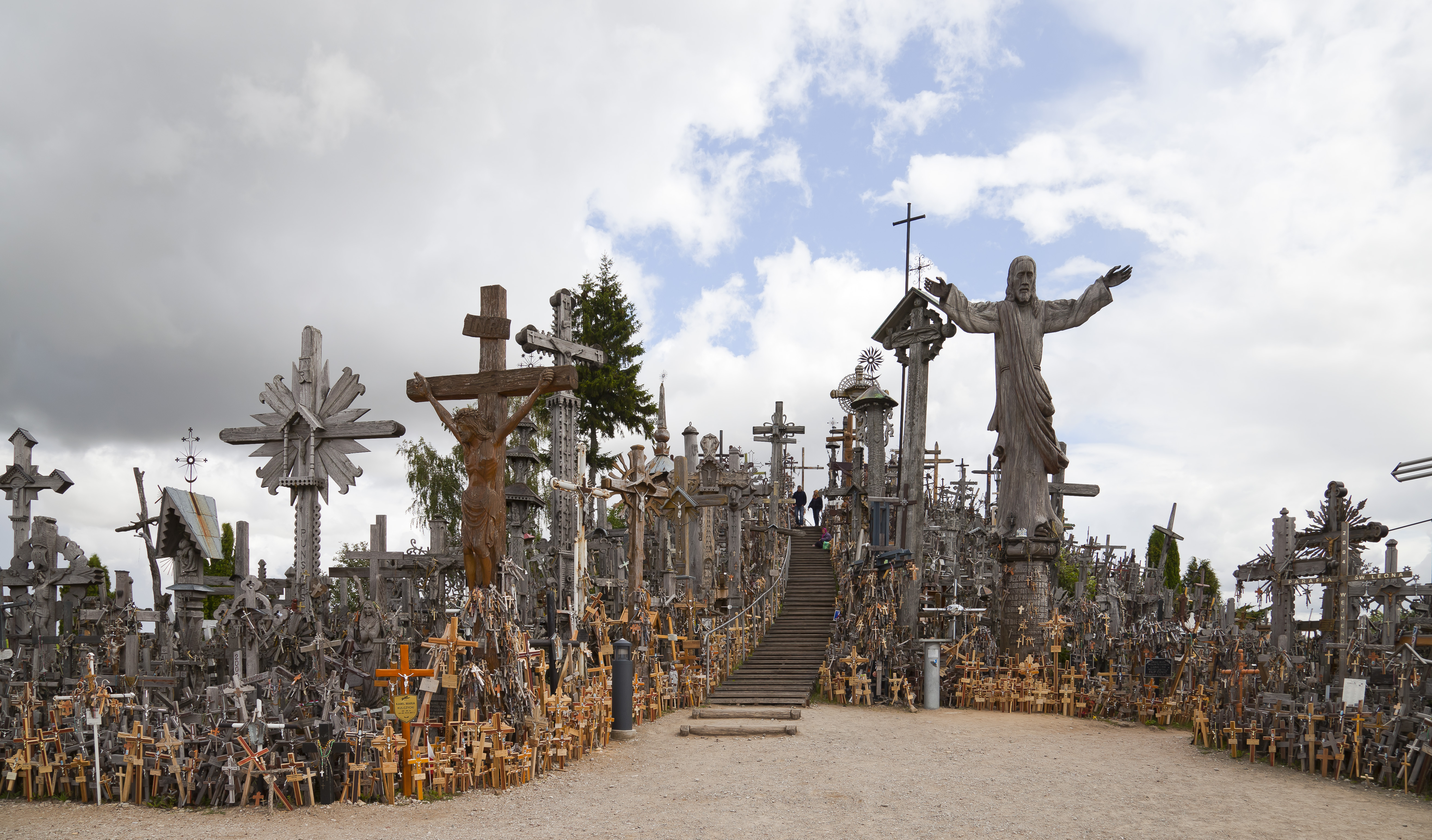 Hill of Crosses, Lithuania